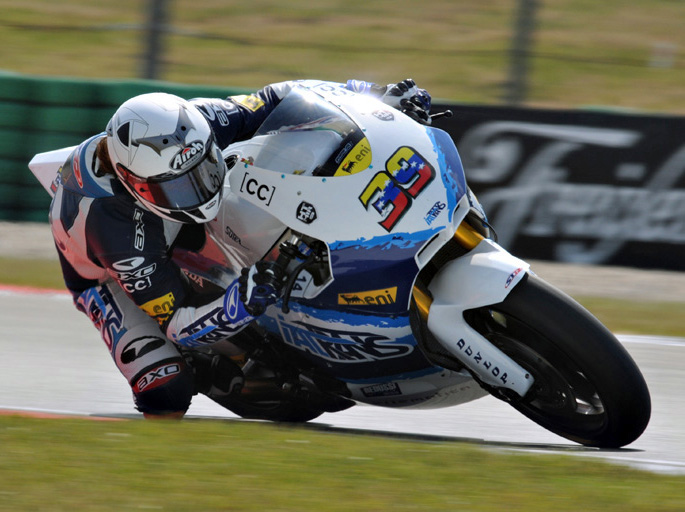 Robertino Pietri 2010 Assen